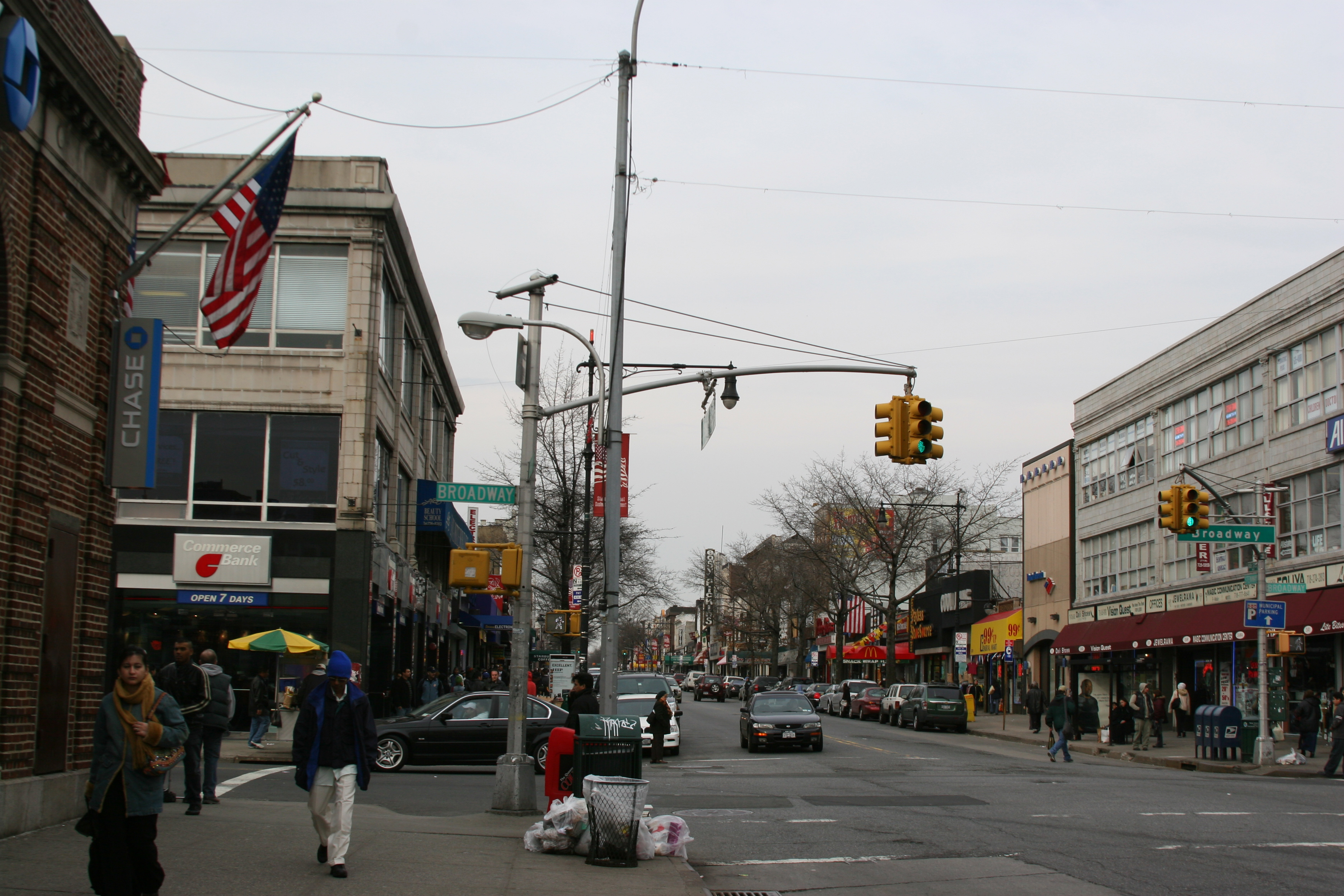 Broadway and Steinway St in Astoria, Queens, NYC. Photo by User:Aude, taken on March 26, 2007.